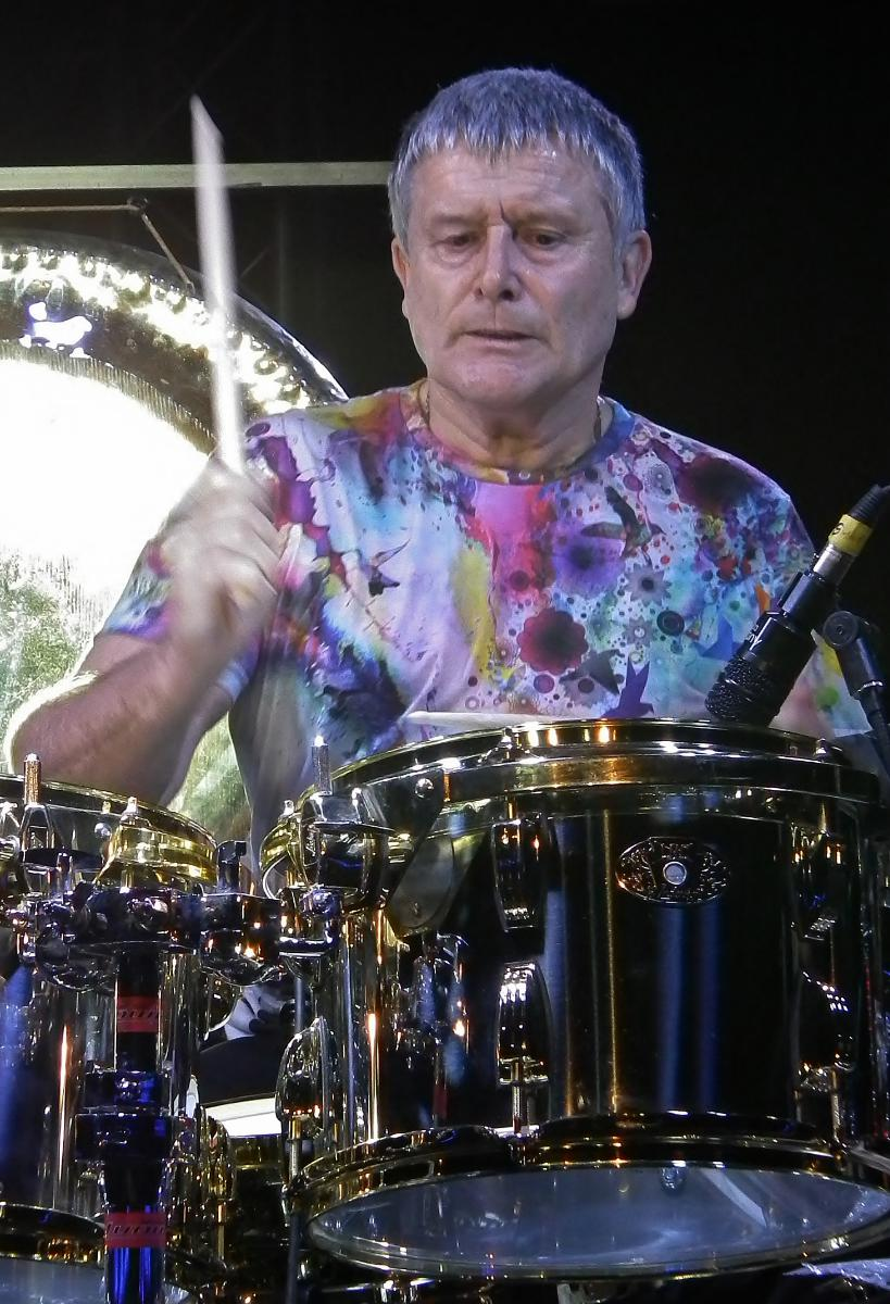 Carl Palmer, performing with the Carl Palmer Band in Skegness in 2014